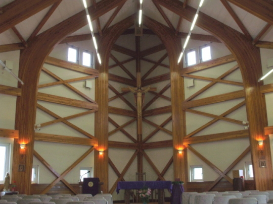 Teinne Cathlic Church Inner Photo